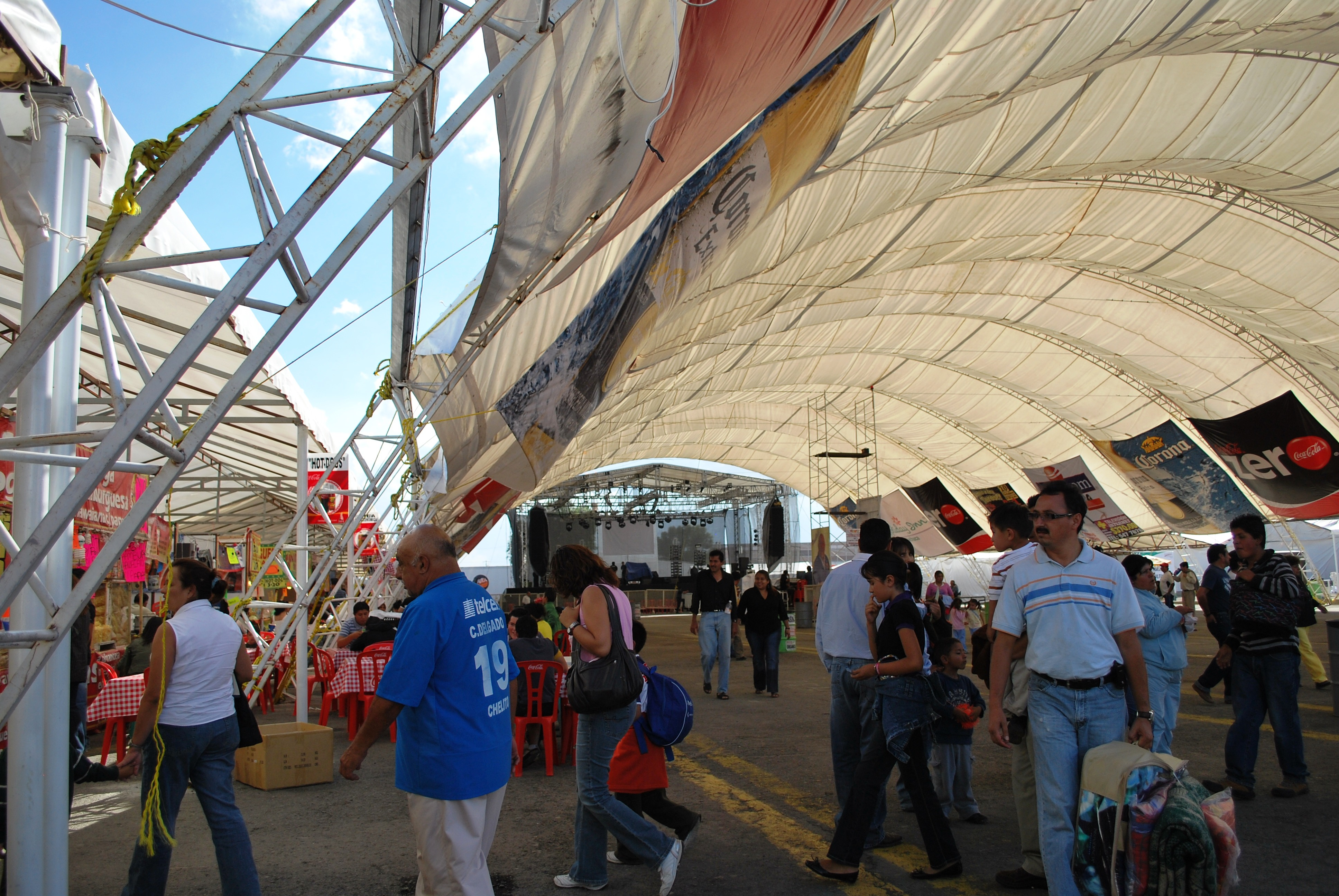 Outdoor stage with canopy for spectators at the Feria de Hidalgo in Pachuca, Hidalgo